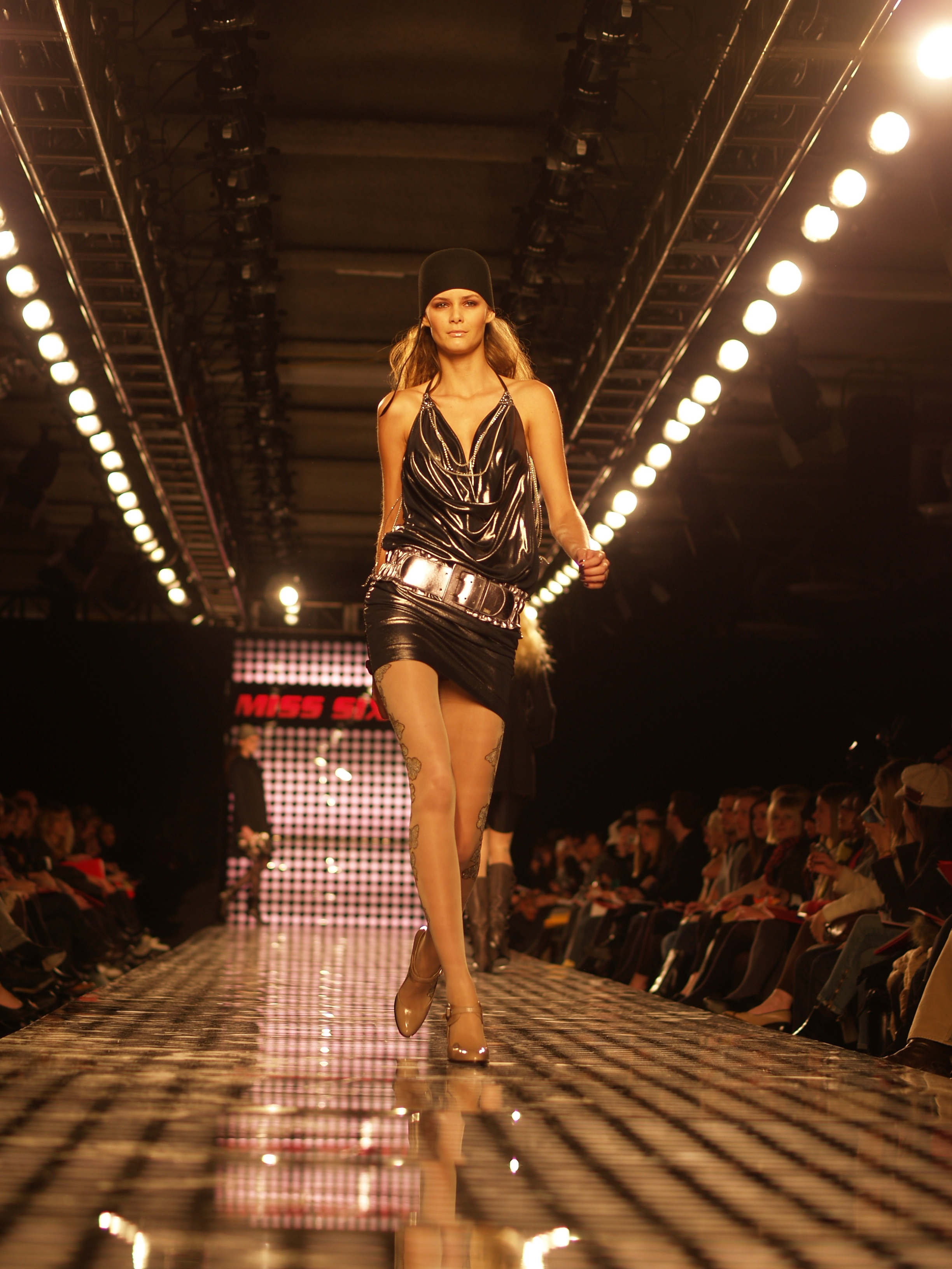 Flavia de Oliveira modeling for Miss Sixty, Fall 2007 New York Fashion Week.